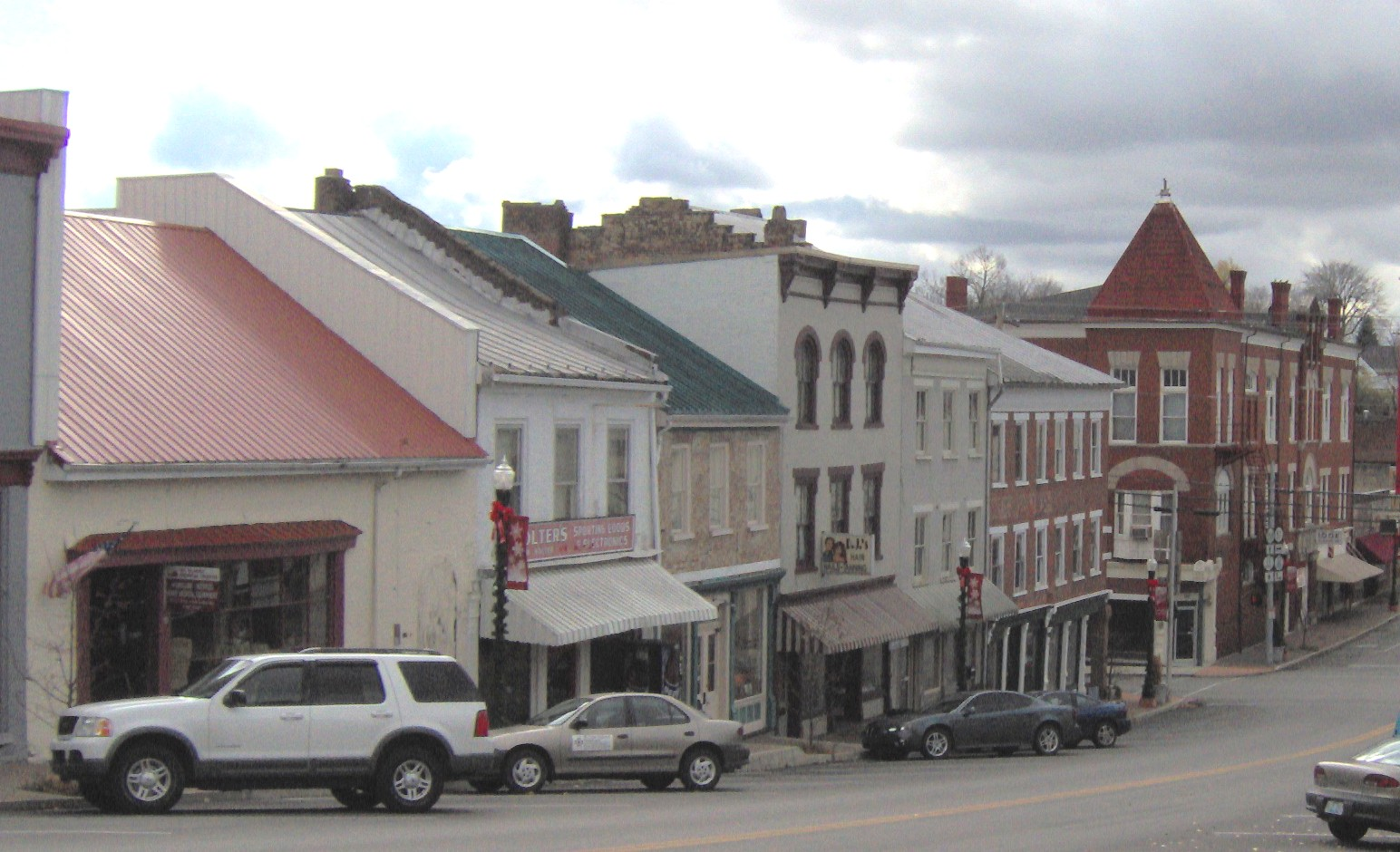 Downtown Flemingsburg, Kentucky across from the Fleming County courthouse.